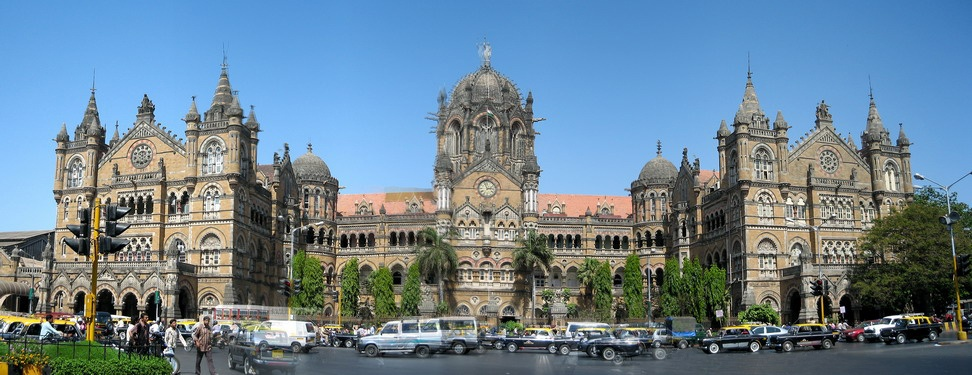 The super gothic architecture and facade of Mumbai's Victoria Terminus.